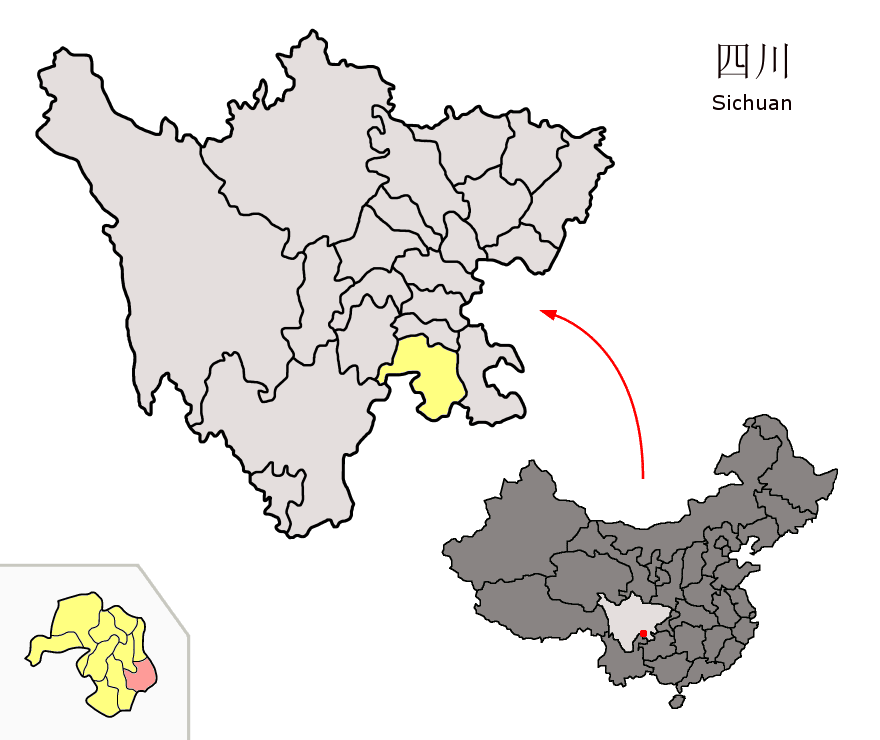 Location of Xingwen County (pink) and Yibin Prefecture (yellow) within Sichuan province of China Map drawn in october 2007 using various sources, mainly : Sichuan province administrative regions GIS data: 1:1M, County level, 1990 Sichuan Counties map from